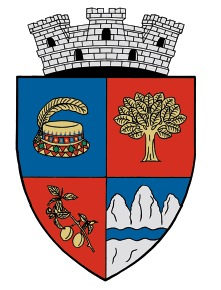 Coat of arms of Negrești-Oaș township, Satu Mare County, Romania